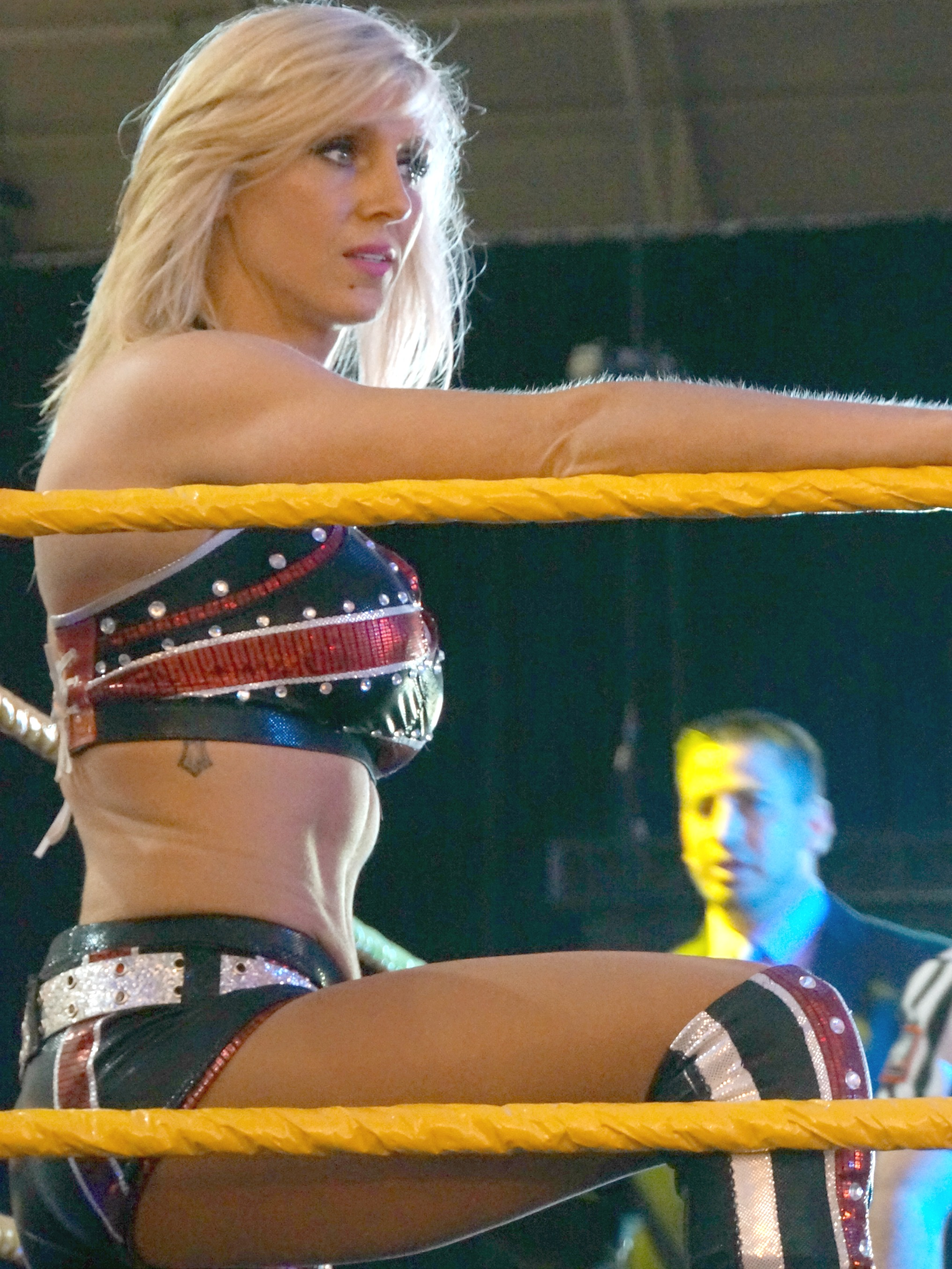 Charlotte at the ring during the 2014 WrestleMania axxess.